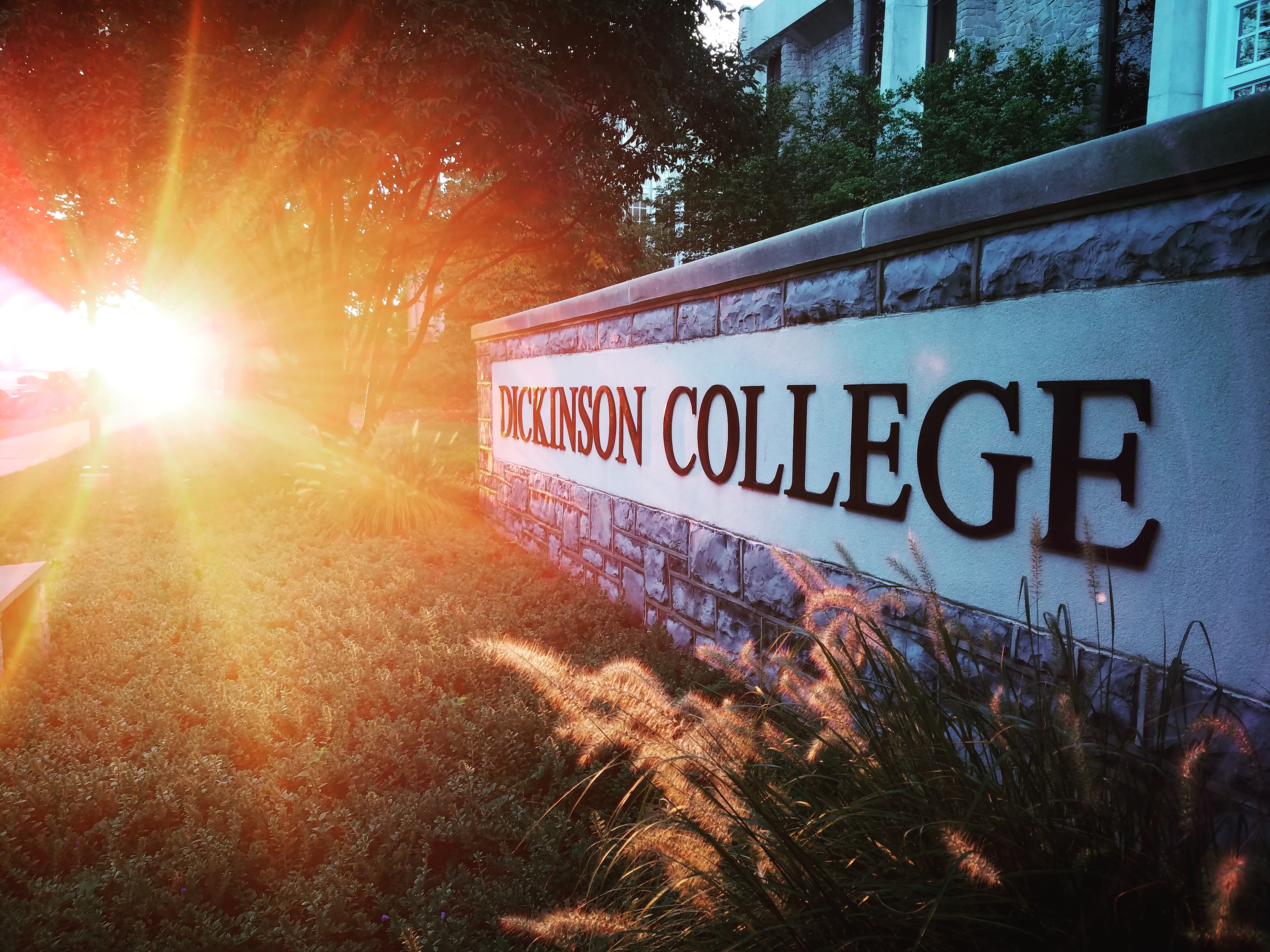 Sunset outside of Waidner Spahr Library